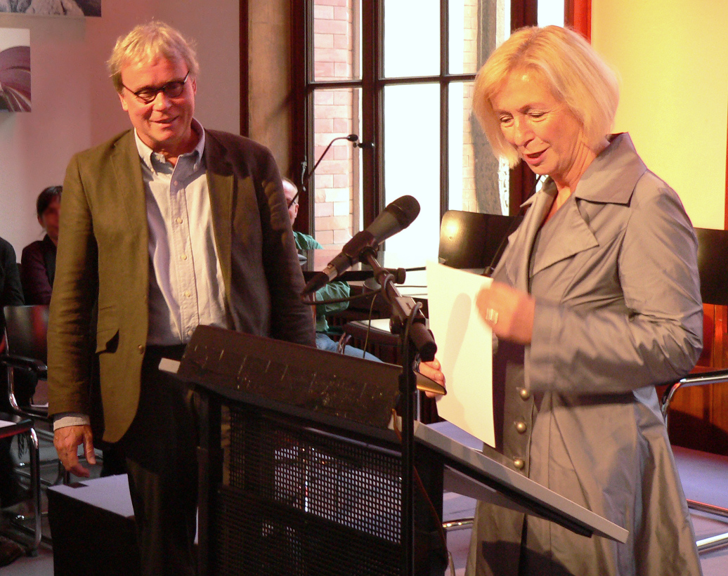 Peter Waterhouse Verleihung Nicolas-Born-Preis 2011